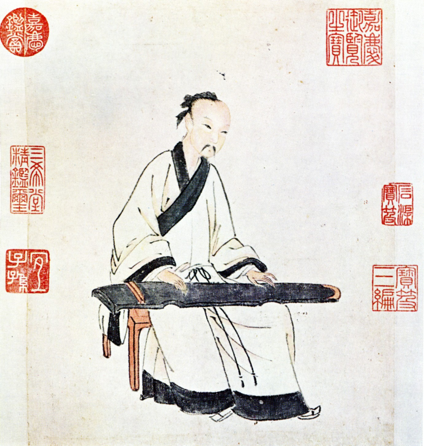 Yang Jijing (杨季静) playing a lute by the painter Wen Boren. Little is known of the painter's subject. Handscroll, color on paper. Size 29.1 x 23.9 cm (height x width). Painting is located in the National Palace Museum, Taipei. (See: Page 111 of 故宮圖像選萃 (Gu gong tu xiang xuan cui) Masterpieces of Chinese Portrait Painting in the National Palace Museum. Taipei: National Palace Museum. 1971.)